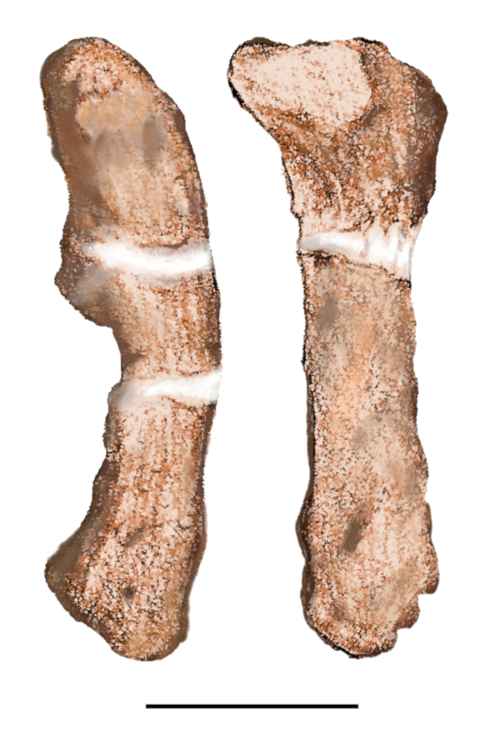 Detailed pencil illustration based on photographs from Nesbitt (2011)[1] of the femur and tibia holotype of Teyuwasu barberenai BSPG AS XXV 53. Now "Teyuwasu" is considered a synonym of Staurikosaurus pricei.[2] ↑ a b Nesbitt, Sterling. (2011). The Early Evolution of Archosaurs: Relationships and the Origin of Major Clades. Bulletin of the American Museum of Natural History. 352. 1-292. 10.1206/352.1. ↑ a b Garcia, Maurício S. (2019-07-04). "On the taxonomic status of Teyuwasu barberenai Kischlat, 1999 (Archosauria: Dinosauriformes), a challenging taxon from the Upper Triassic of southern Brazil". Zootaxa 4629 (1): 146–150. ISSN 1175-5334. .